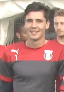 Silviu Lung Jr.